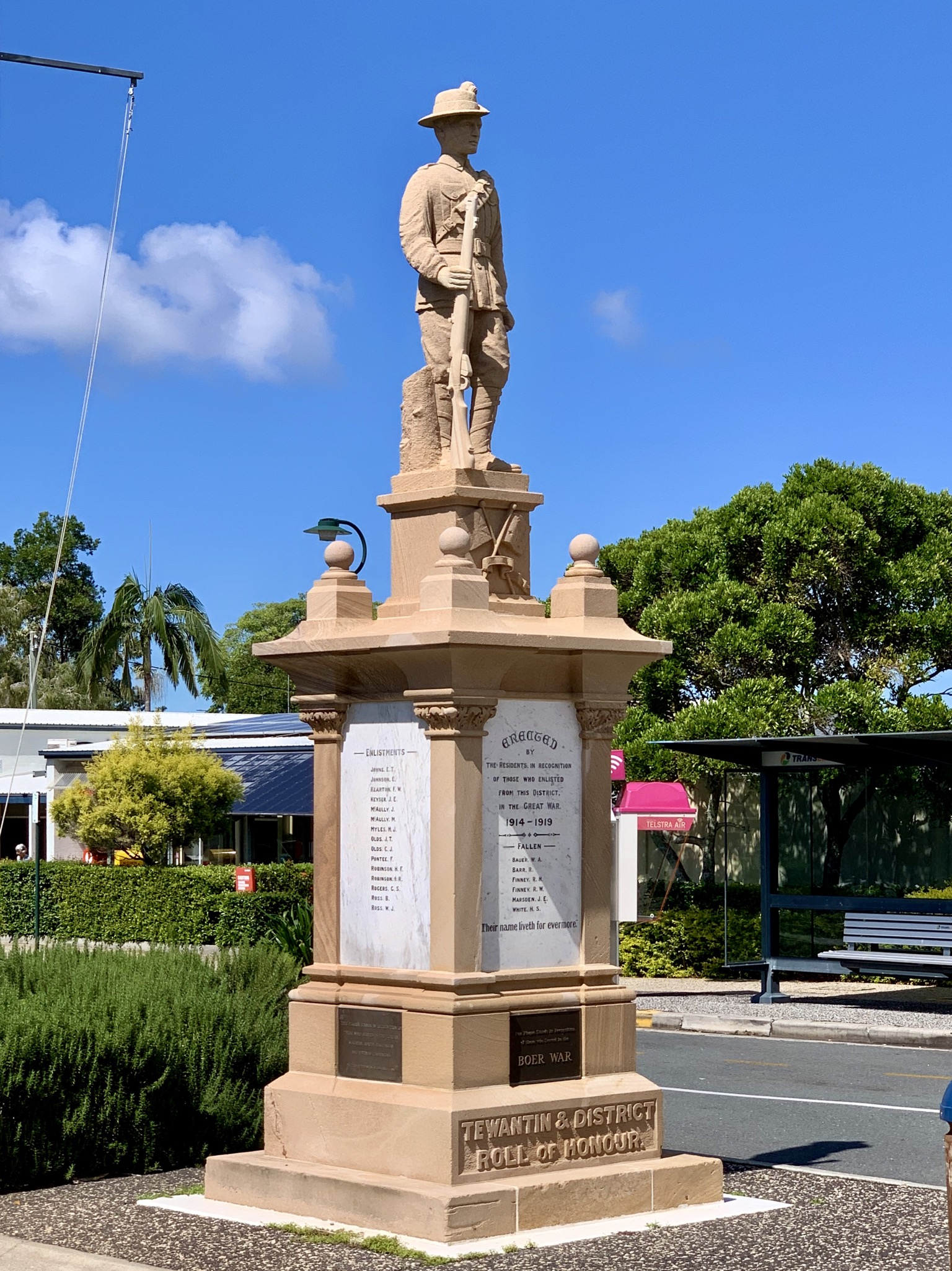 Tewantin War Memorial (Digger), Tewantin, Queensland